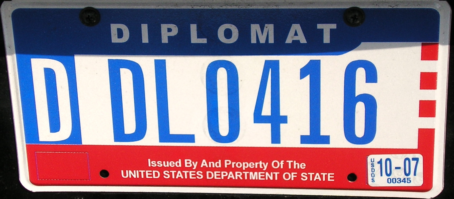 US diplomatic license plate issued to an Indian diplomat. Photographed at Embassy Row, Washington DC.